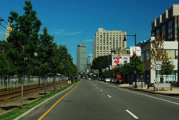 East view of US 20 approaching Kenmore Square